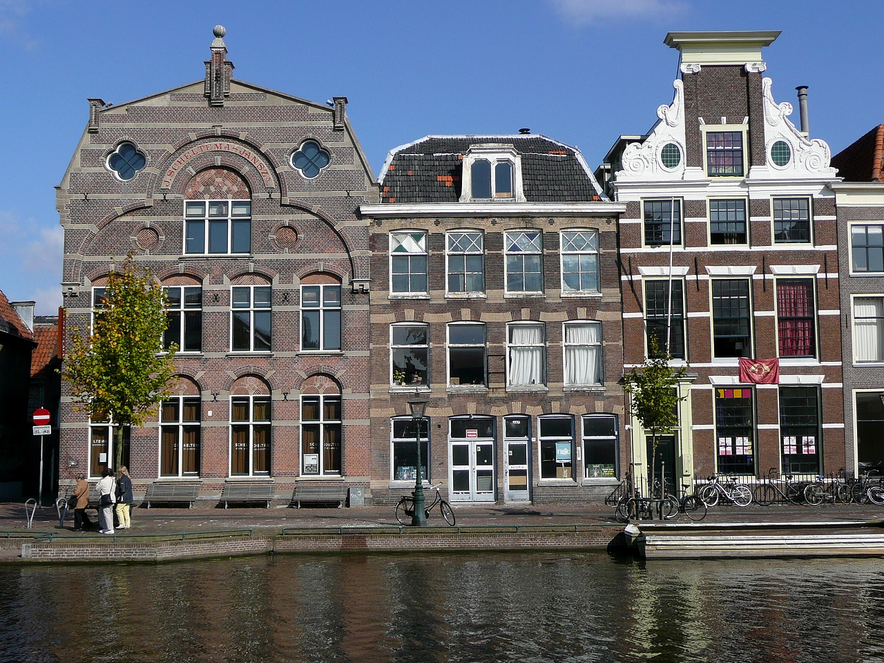 Scheltema complex in Leiden.